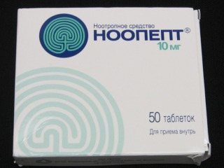 Photo of box of Noopept